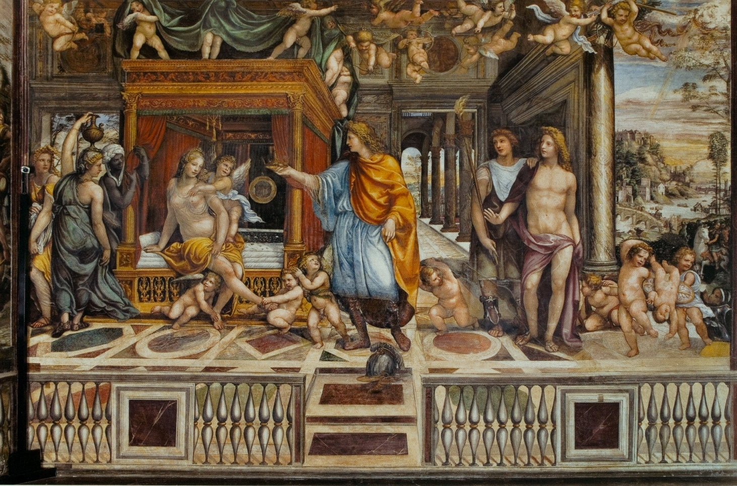 Villa Farnesina fresco1